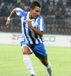 Hepple vs Skenderbeu in Super Cup Final 2011